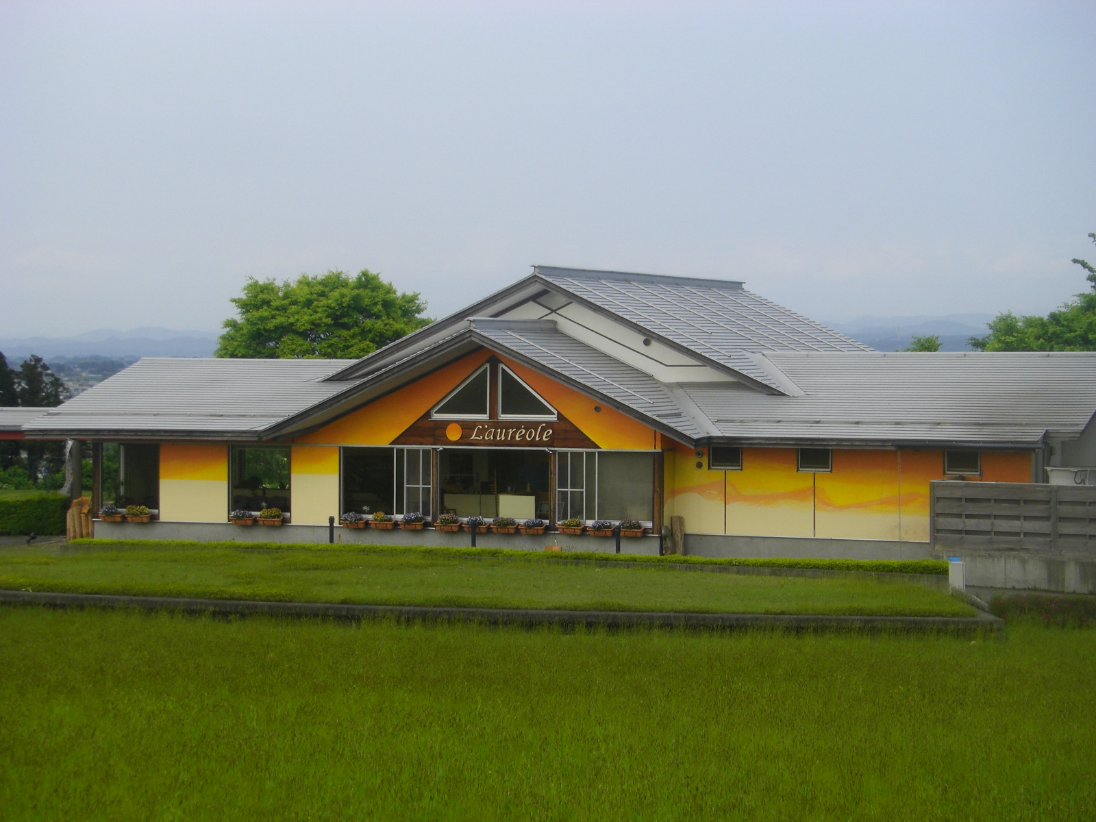 restaurant by The Cattle Museum.location:Iwate'pref Oshu city.